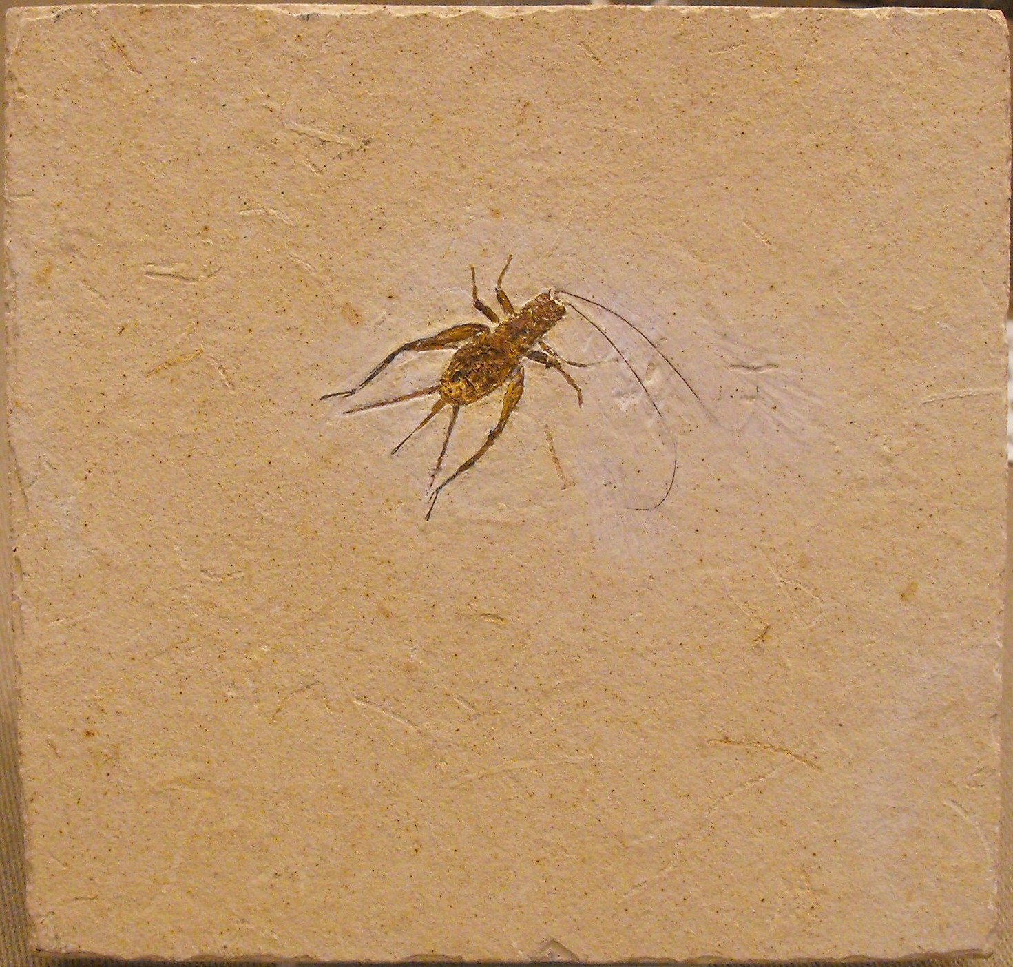 Fossil Cretaceous cricket, Family Gryllidae, from Brazil, on display at the San Diego County Fair, California, USA.